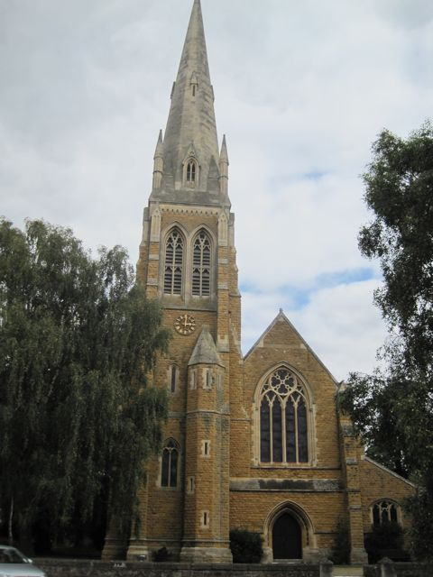 Photo: South front, Christ Church, Malvern, England